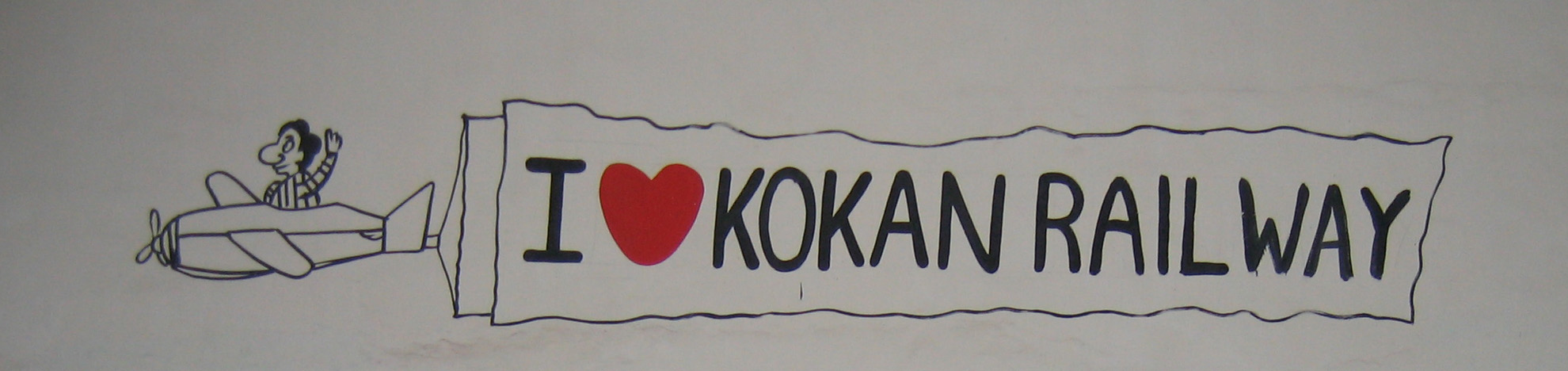 Mario Miranda caricatures on a Konkan Railway station wall